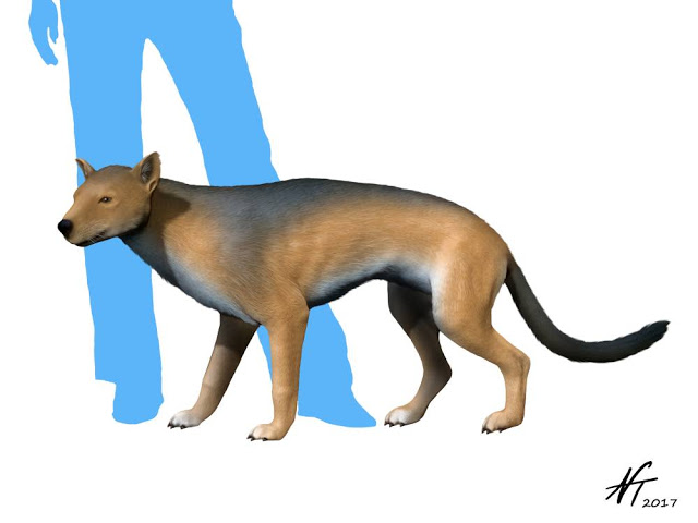 Daphoenus vetus Leidy, 1853 Mammalia Carnivora Amphicyonidae Oligocene Brule Fm (Orellan) Nebraska, US Length: 1 m Characterized by a long tail, elongated body and rather short legs, the coyote-size Daphoenus was one of the bear-dogs (Amphicyonidae) from North America.